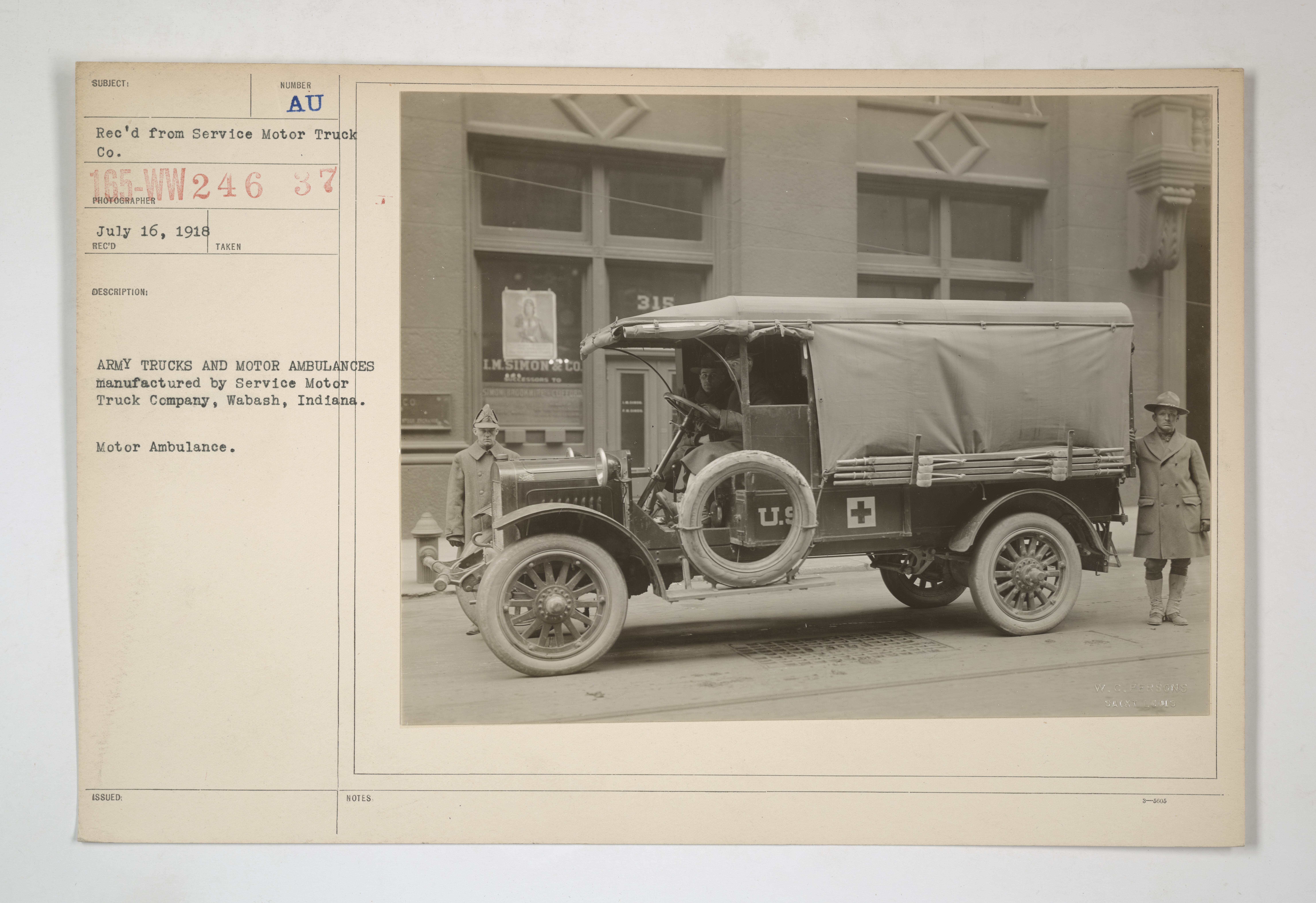 Scope and content: Original Caption: Army trucks and motor ambulances manufactured by Service Motor Truck Company, Wabash, Indiana. Motor Ambulance. Photographer: Rec'd from Service Motor Truck Company.